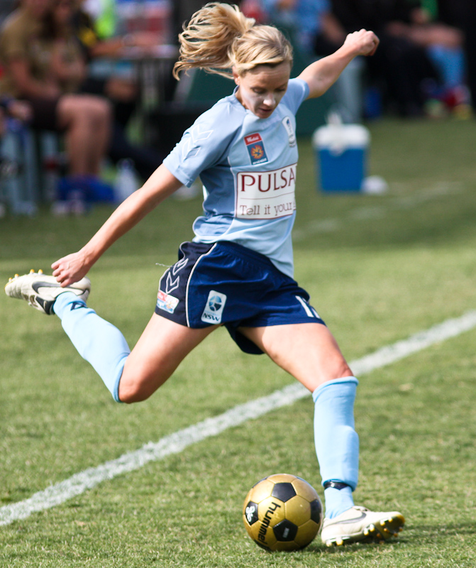 Danielle Small playing for Sydney FC in the W-League against the Newcastle Jets.